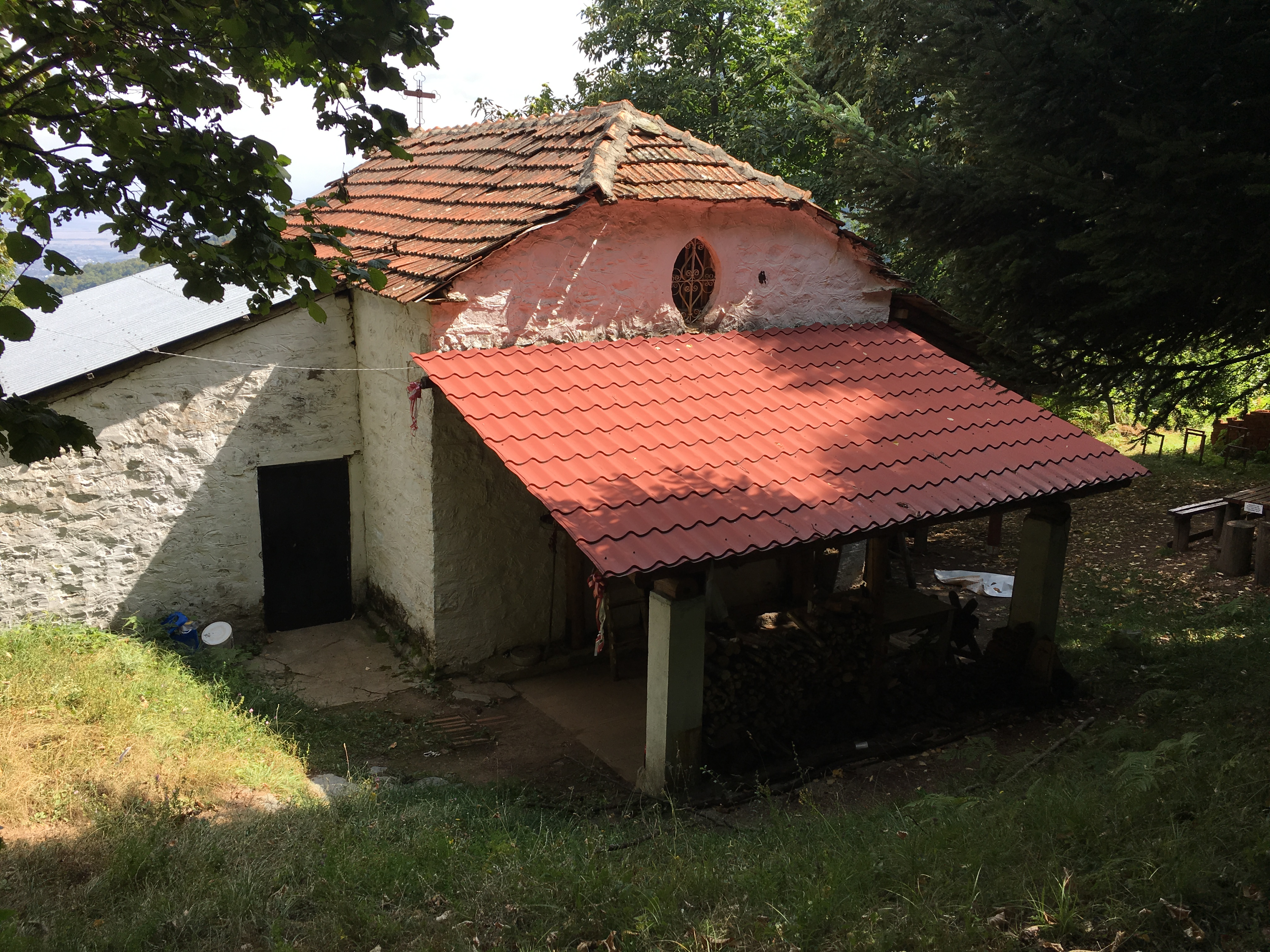 St. Athanasius Church in the village of Dihovo